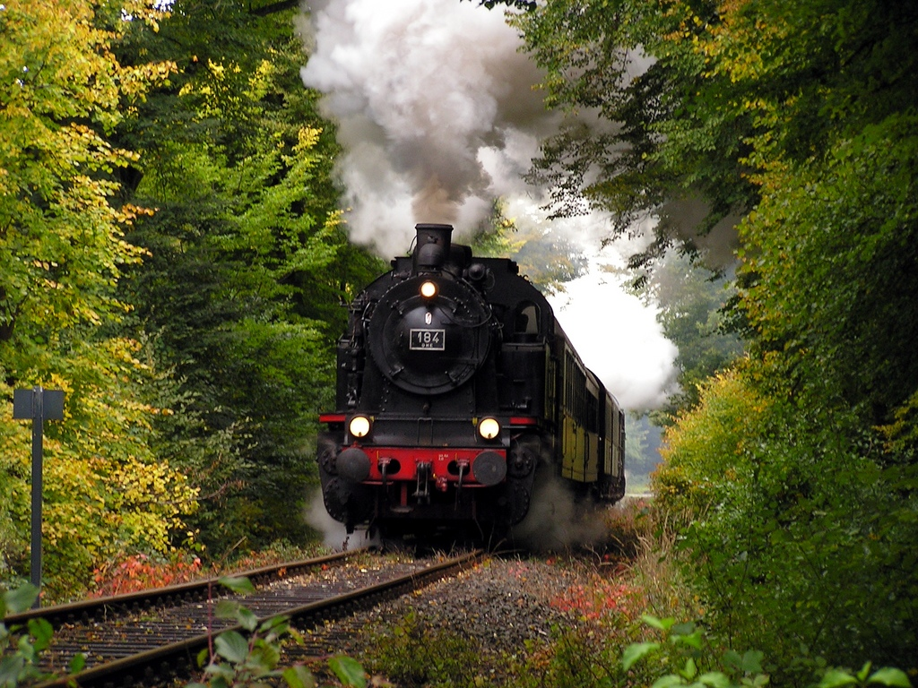 Steam train on the former railway line Darmstadt–Groß-Zimmern